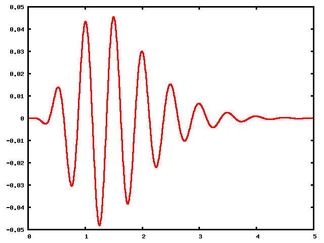 Sample Gammatone function This graphic was created with gnuplot. : Gnuplot code set xrange [0:5]; plot x**4 * cos(2*pi*2*x)*exp(-2*pi*x/2) notitle